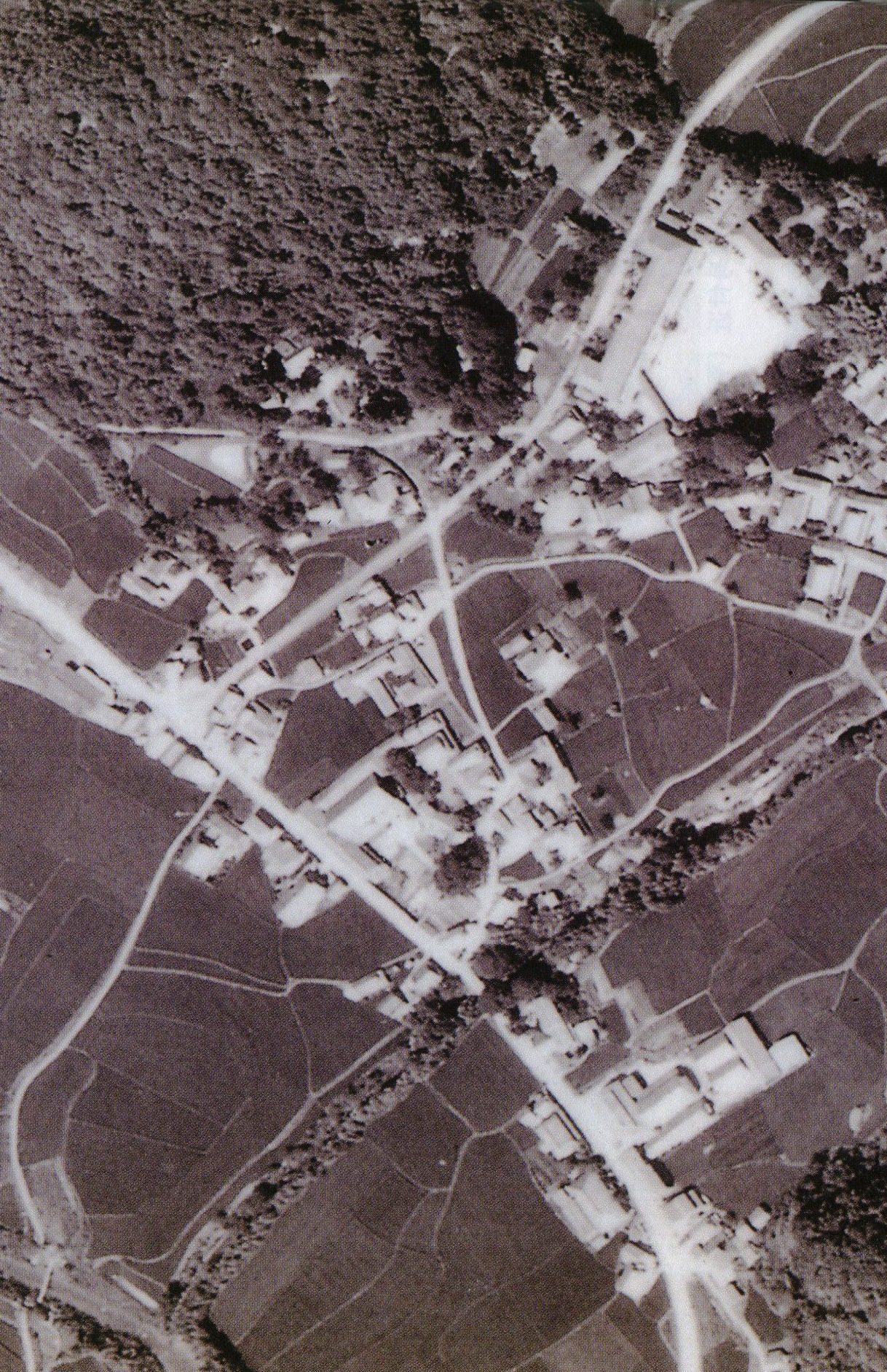 Hosokawatown Toyochi Mikicity Hyogopref in 1961